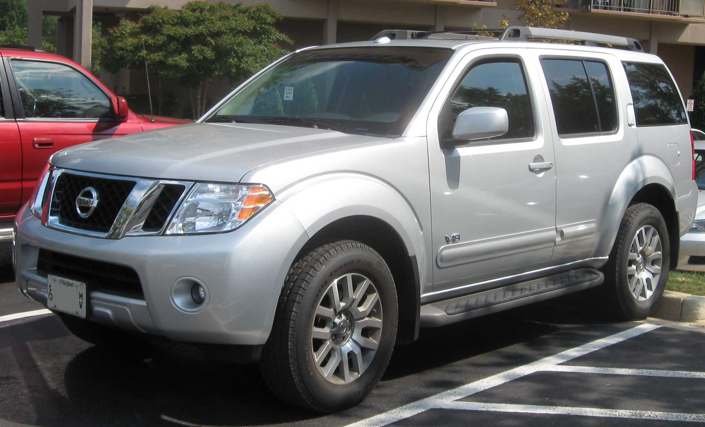 2008 Nissan Pathfinder photographed in College Park, Maryland, USA.